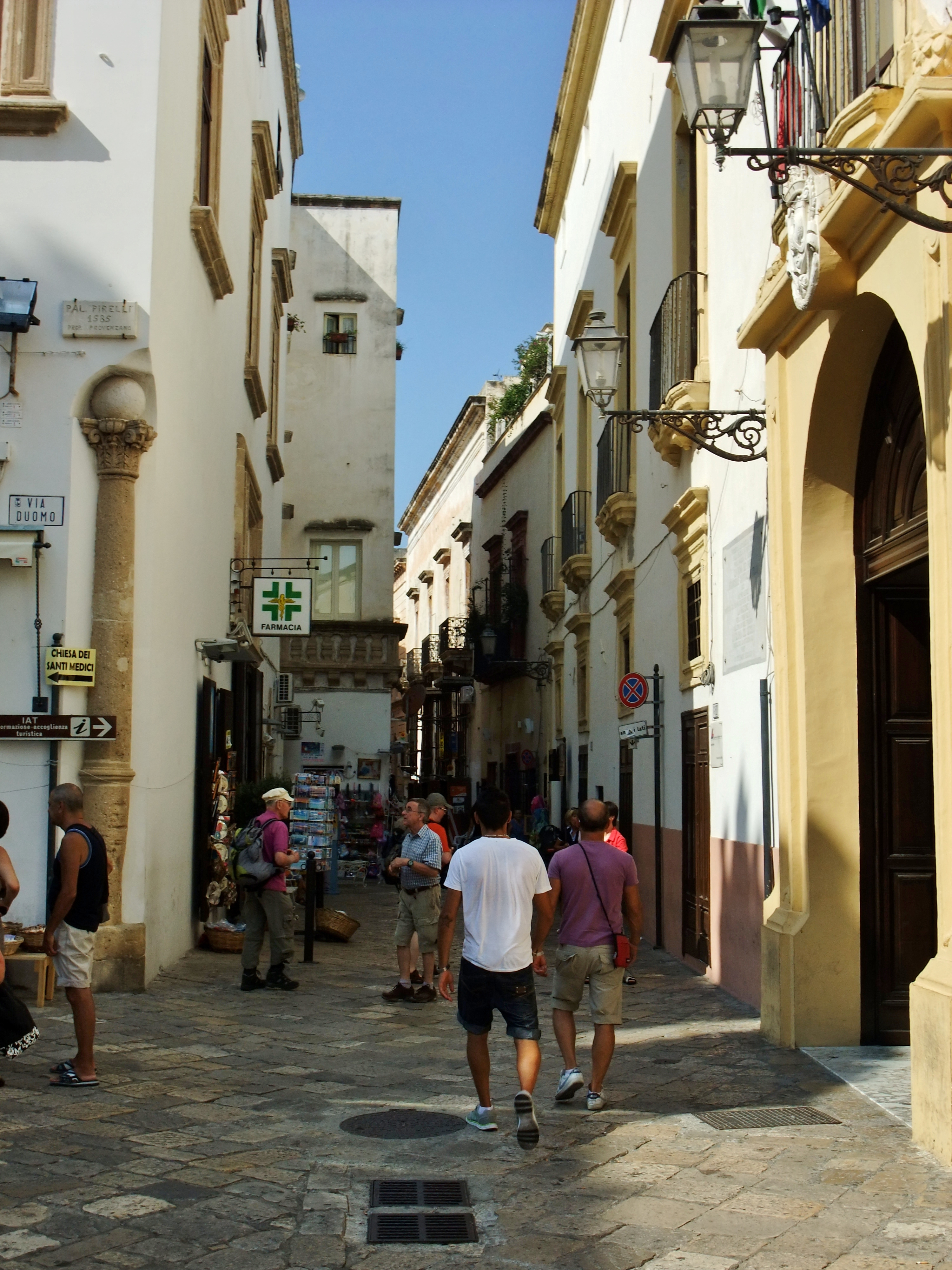 Street in Gallipoli in Apulia, southern Italy